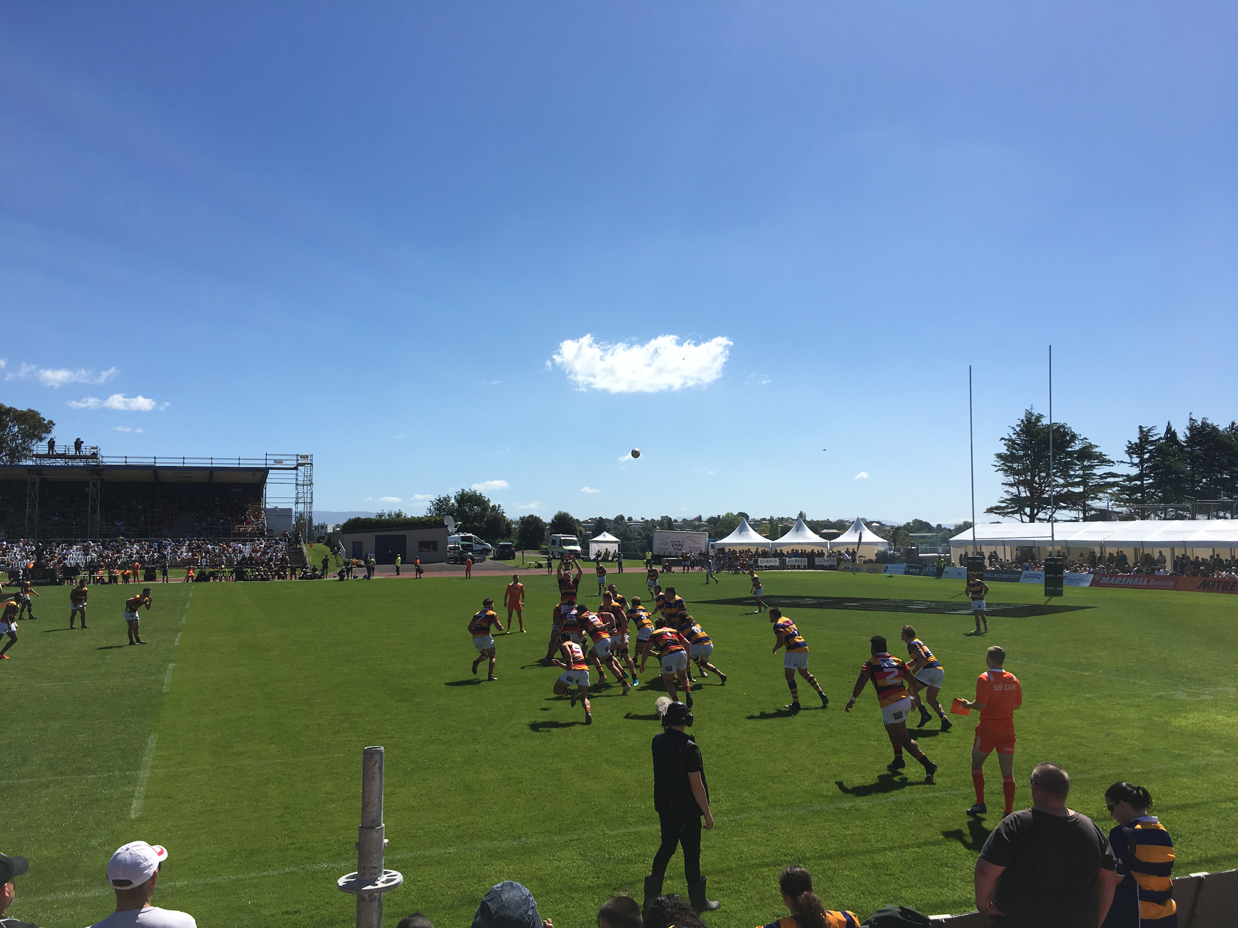 Waikato lineout against Bay of Plenty during their 32-36 lose at Tauranga Domain